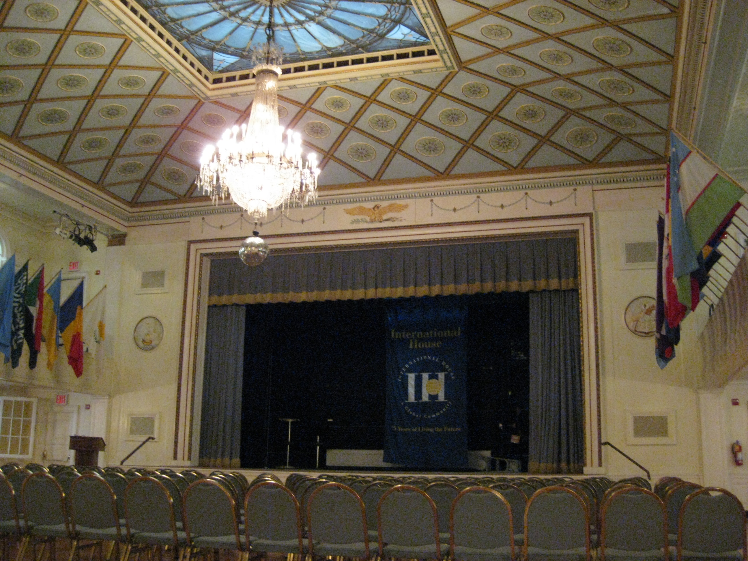 This photo is of Wikipedia Takes Manhattan location code 7, International House of New York.